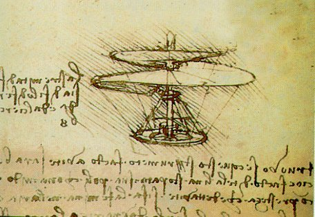 Draught of the helicopter